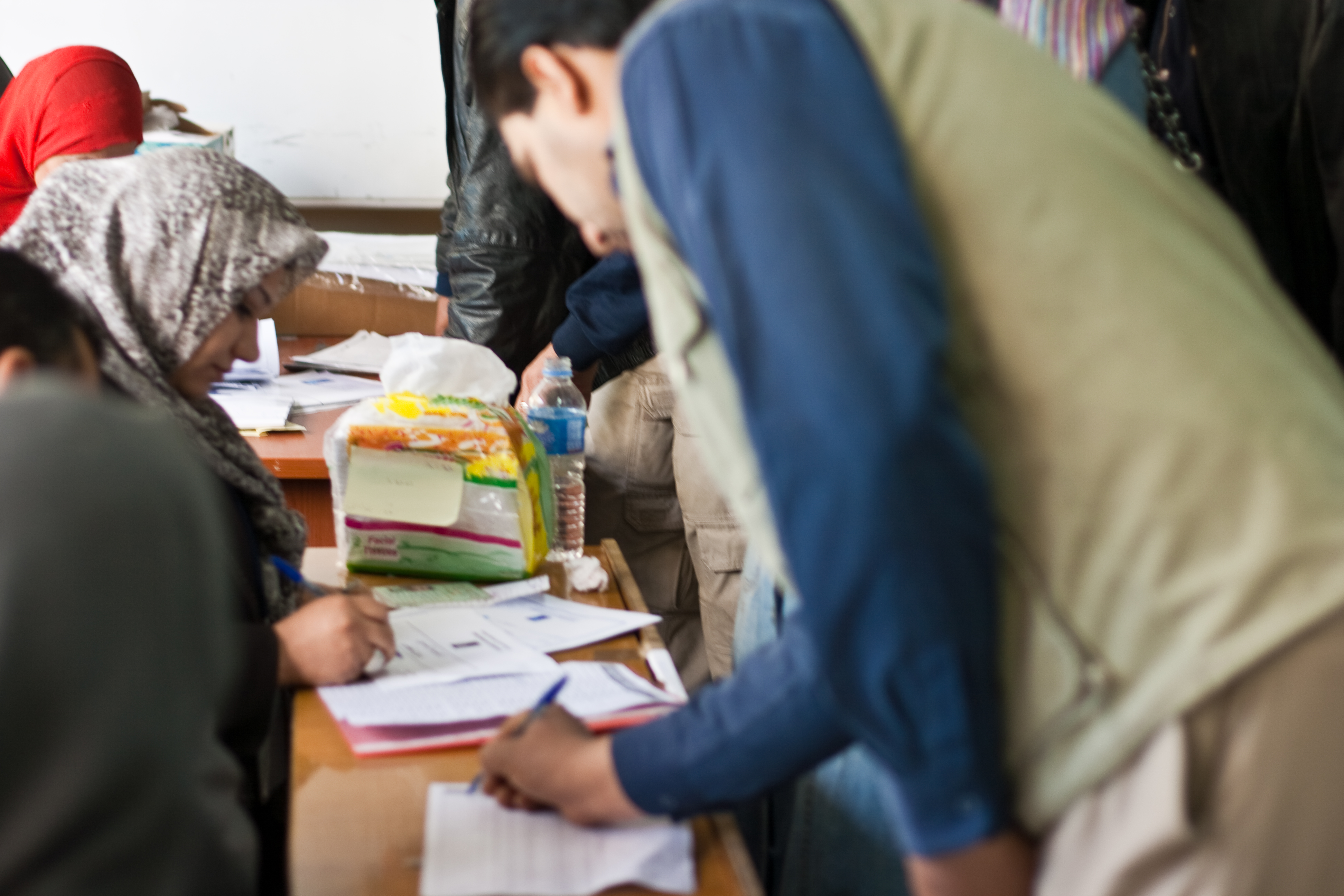 The table where you check the names and get your vote